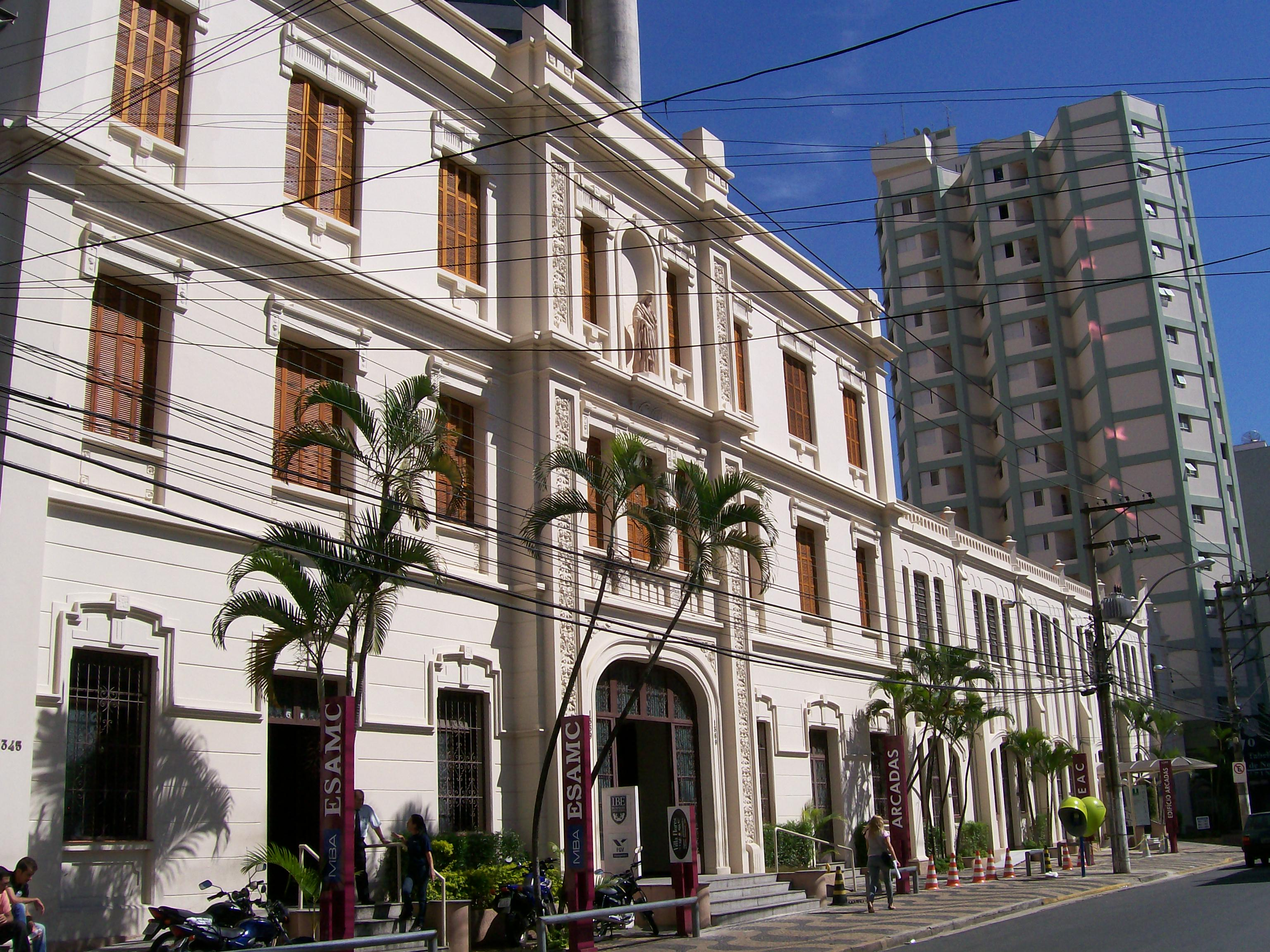 ESAMC College, Campinas, Brazil.